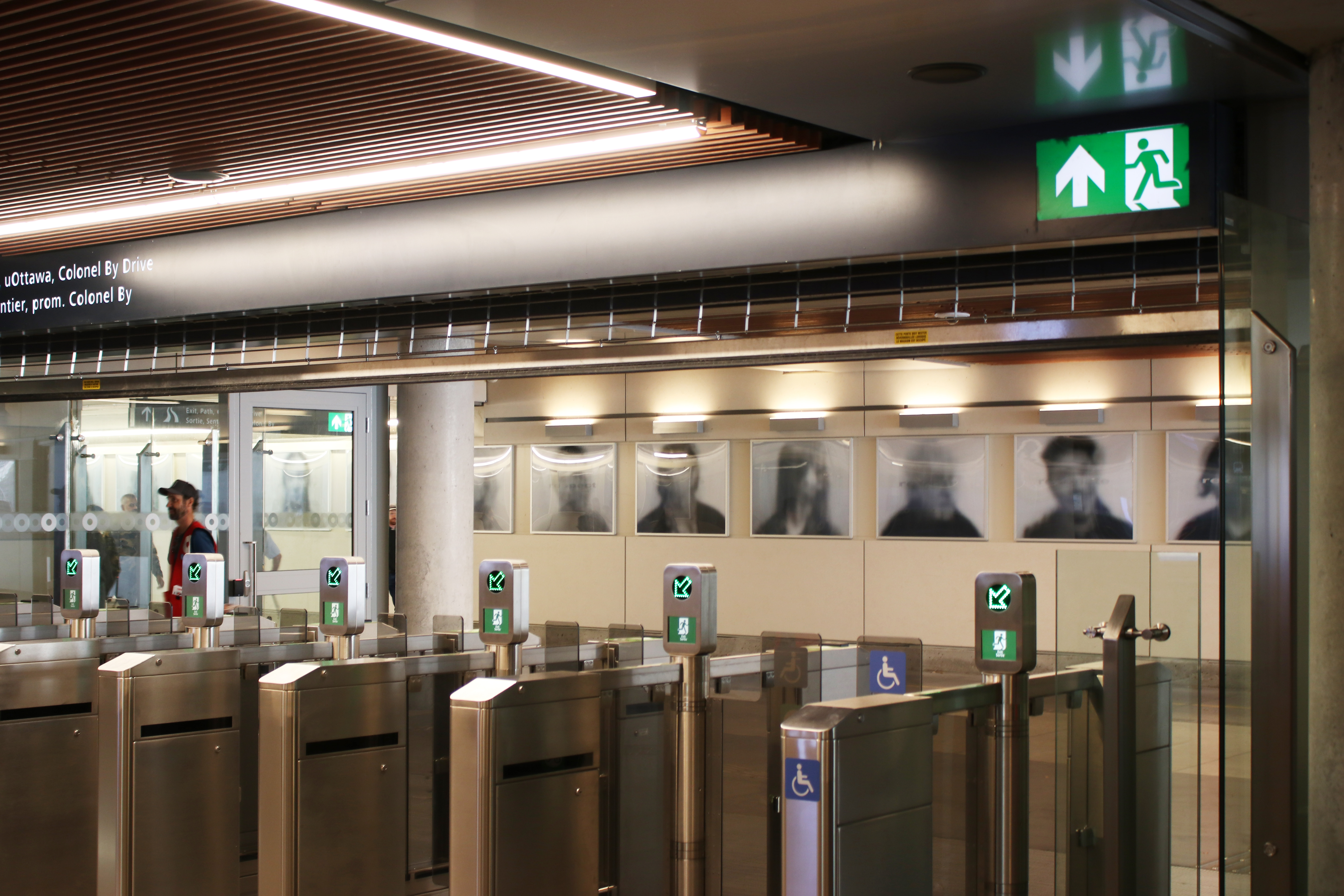 fare gates at uOttawa Station, also showing the public art.